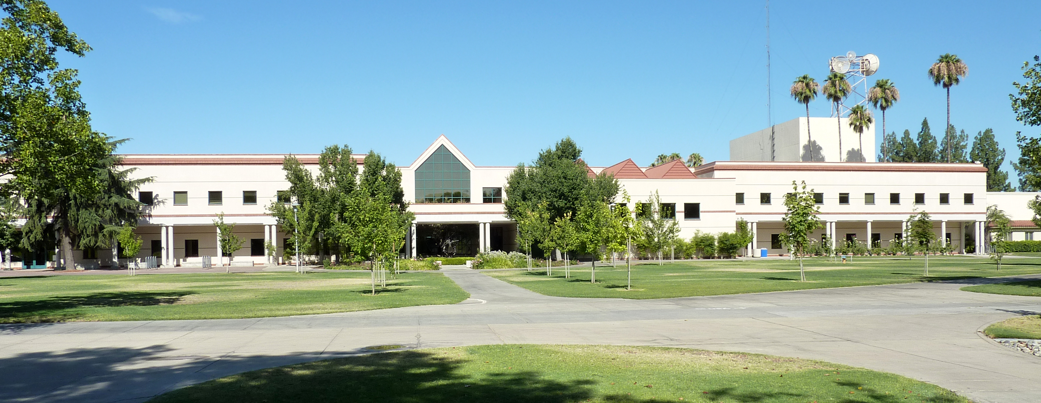 Music Building, Fresno State, Fresno, California, USA.